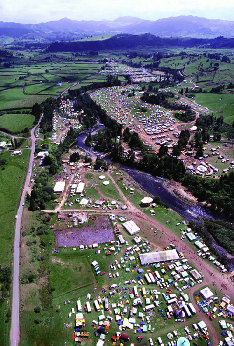 This photo was taken by the official Nambassa photographer of the 1981 Nambassa, the site of the 1976 Waikino festival. 1/ All users of this image are required to attribute this work to "Nambassa Trust and Peter Terry" and the URL: " " is to accompany all use. 2/ Attribution. You must attribute the work in the manner specified by the author or licensor. 3/ For any reuse or distribution, you must make clear to others the license terms of this work. Statement by Nambassa Trust and Peter Terry